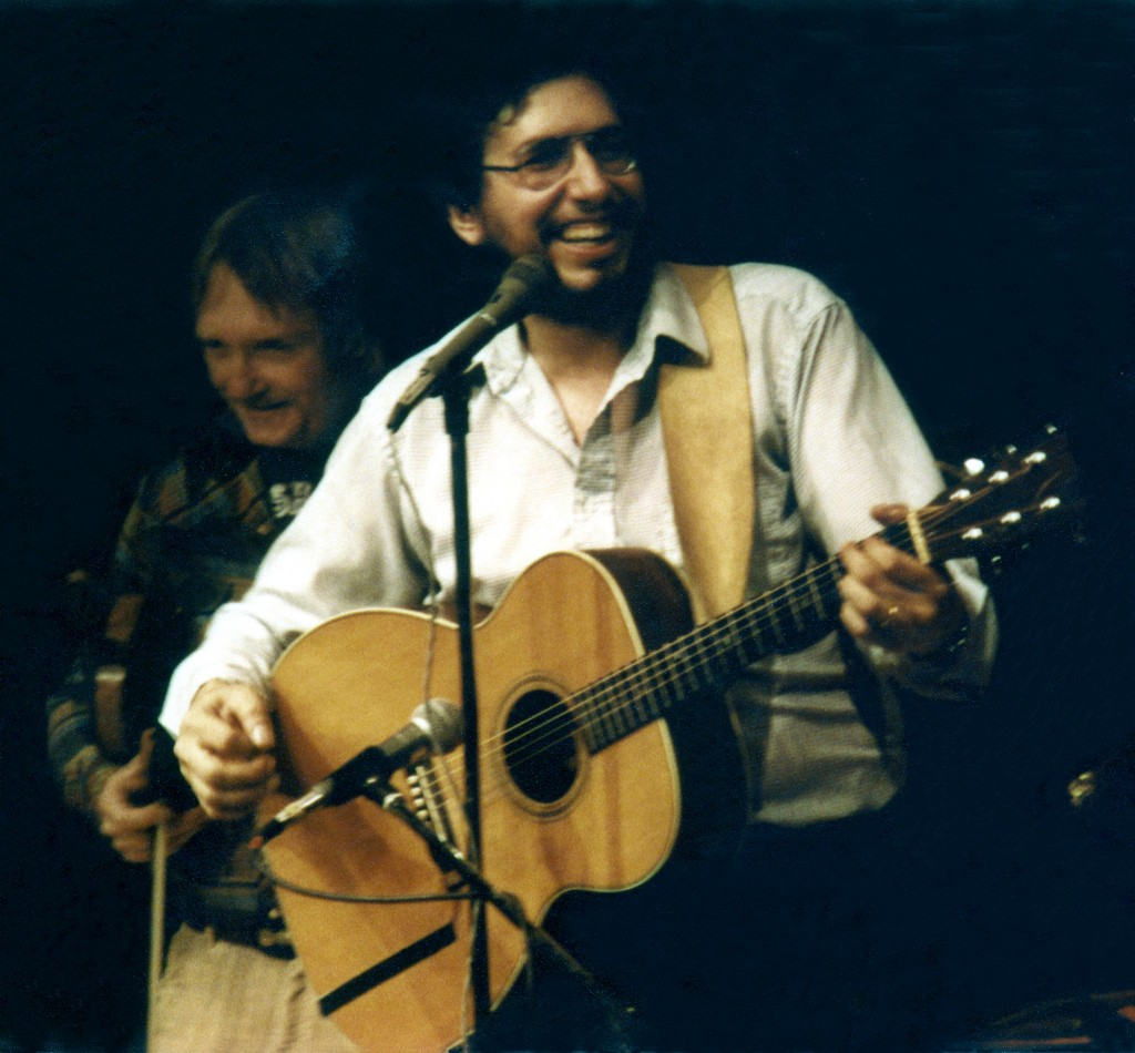 I always liked David Bromberg's music, and this was the second time I remember going to one of his performances. He was always a very good show and he was always joking around between songs and getting his audience to laugh. It's interesting to note that Mr. Bromberg saw me with this camera with the telephoto lens and just smiled at me. You would think I got that photo, and maybe I did, but I can't find it right now. I'm lucky I found this print. If I find the negatives, I will scan them. It's also interesting to note that approximately eighteen years after this photo was taken, Mr. Bromberg moved to Wilmington, Delaware. He has a violin shop and still tours and performs periodically.